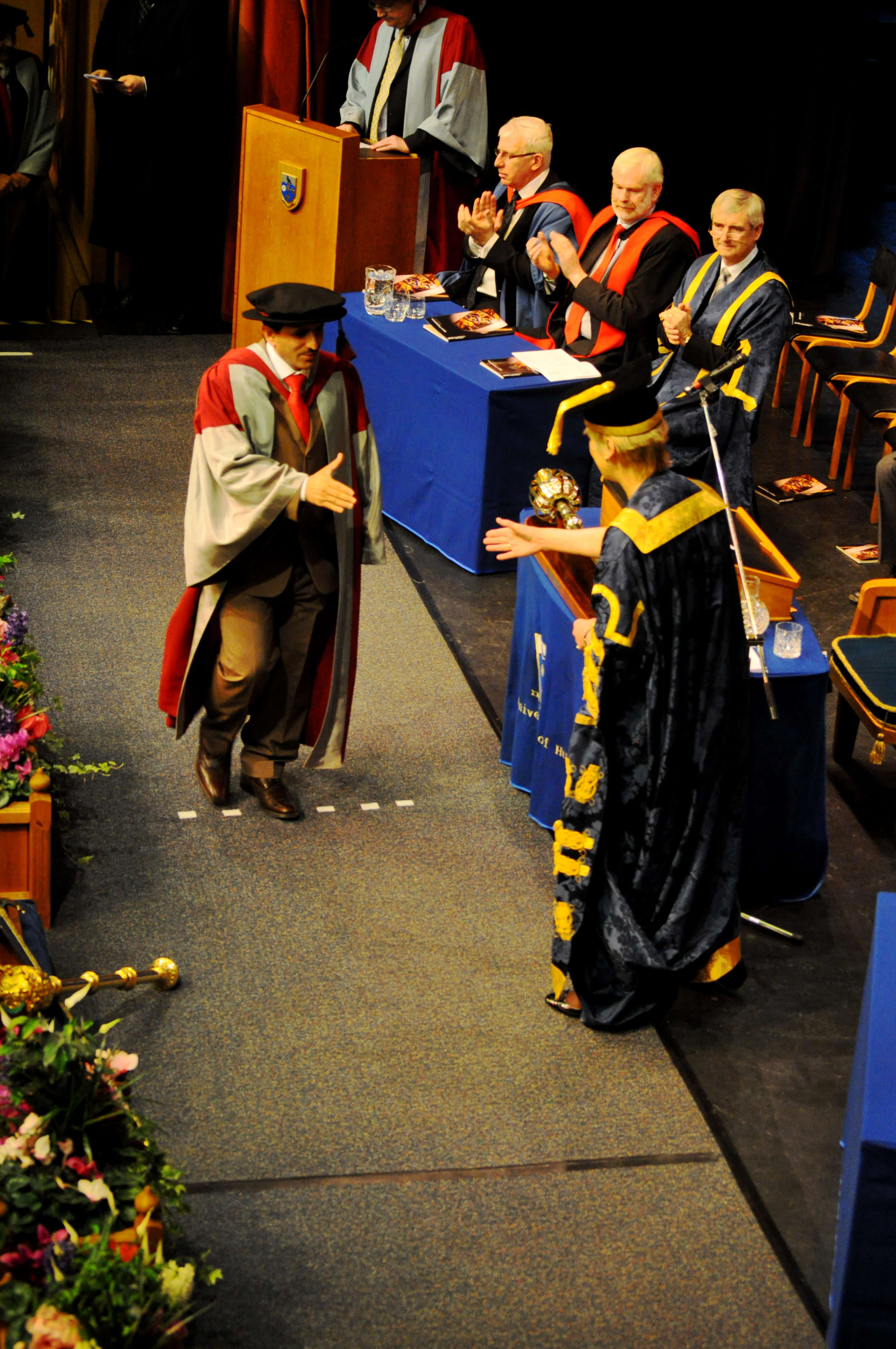 Graduation even